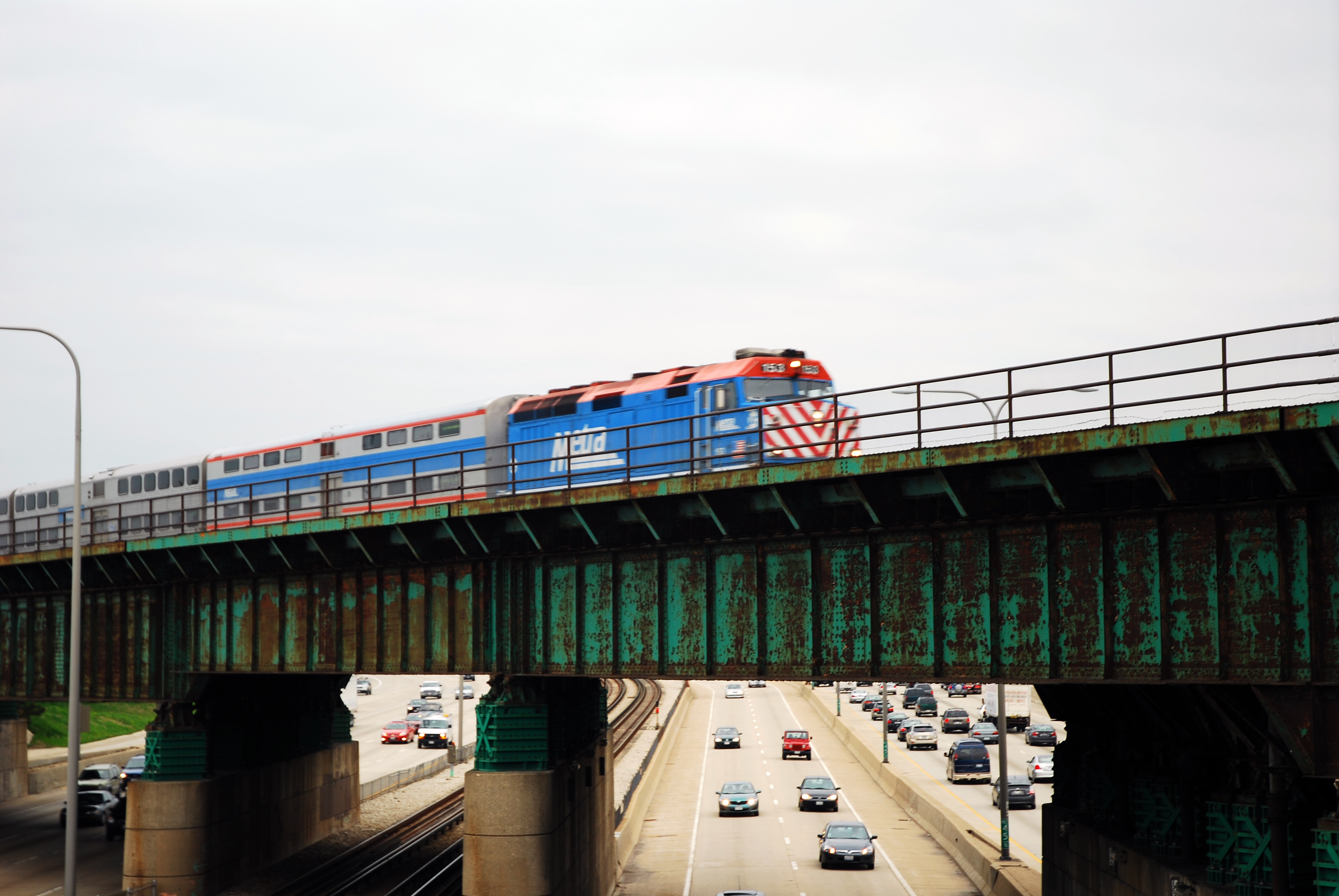 Chicago & Northwestern Metra